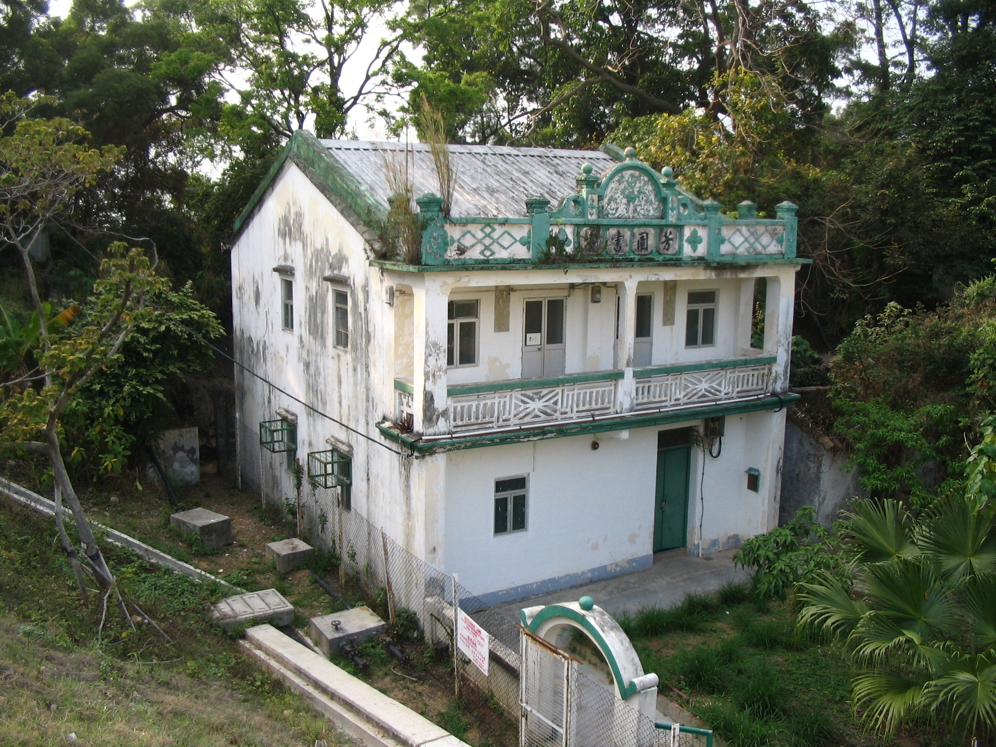 Photo of Fong Yuen School